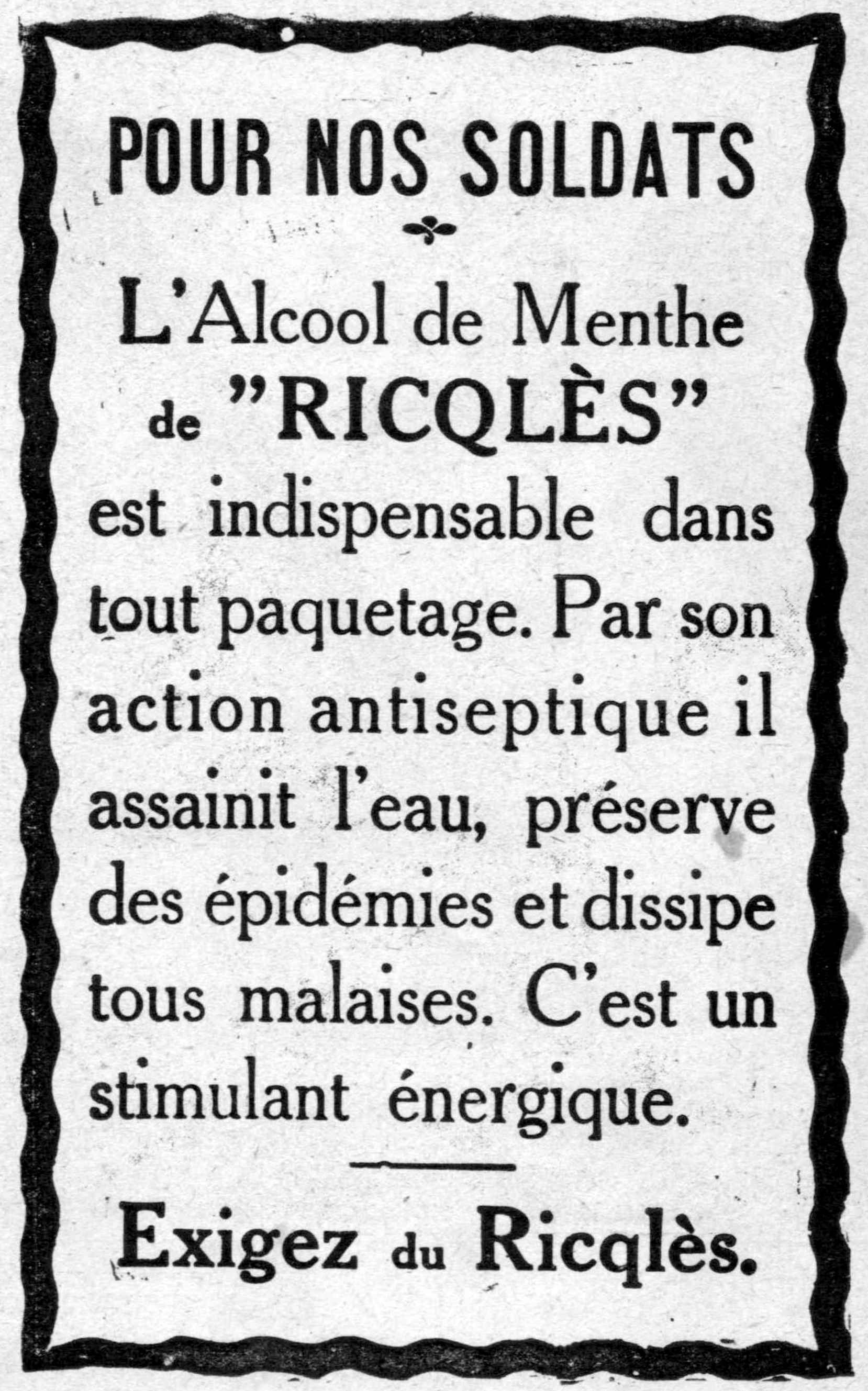 Scan of L'ILLUSTRATION, No. 3791, 30 Octobre 1915, Ricqlès.